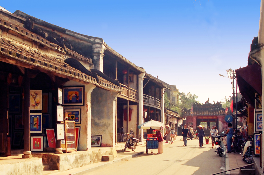 A photo of Hoi An Ancient Town